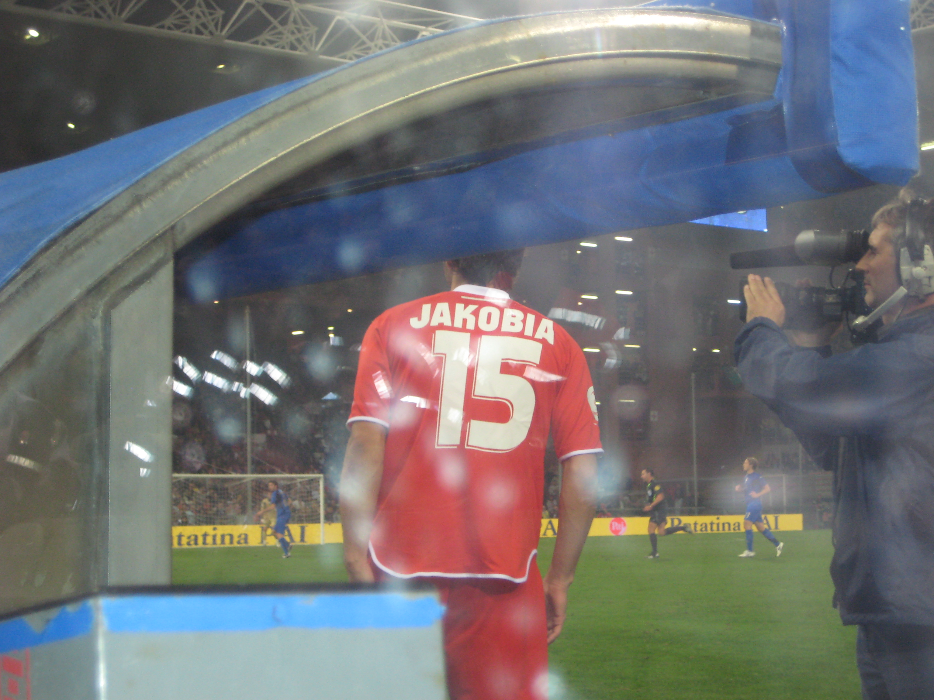 Lasha Jakobia un joueur proffesionnel de football